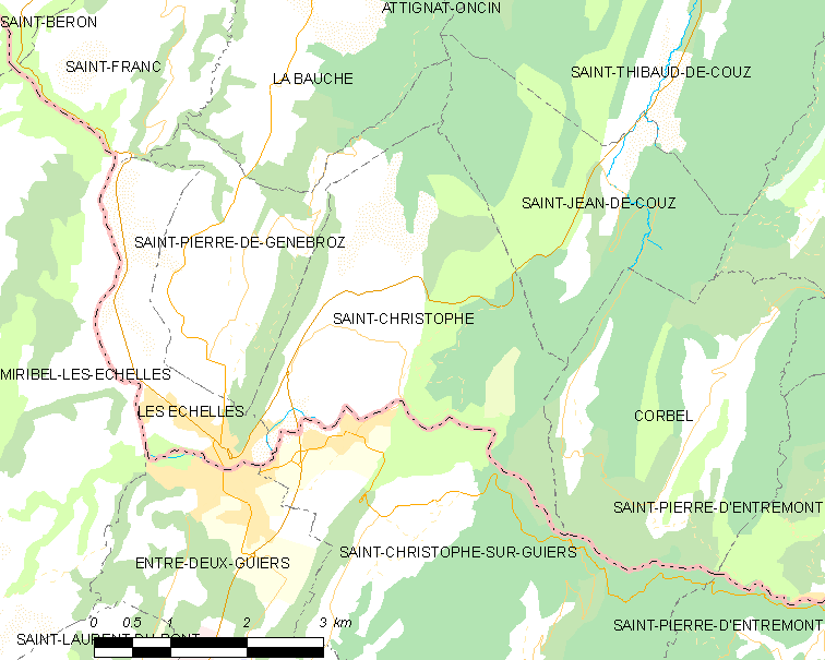 Map of French municipality